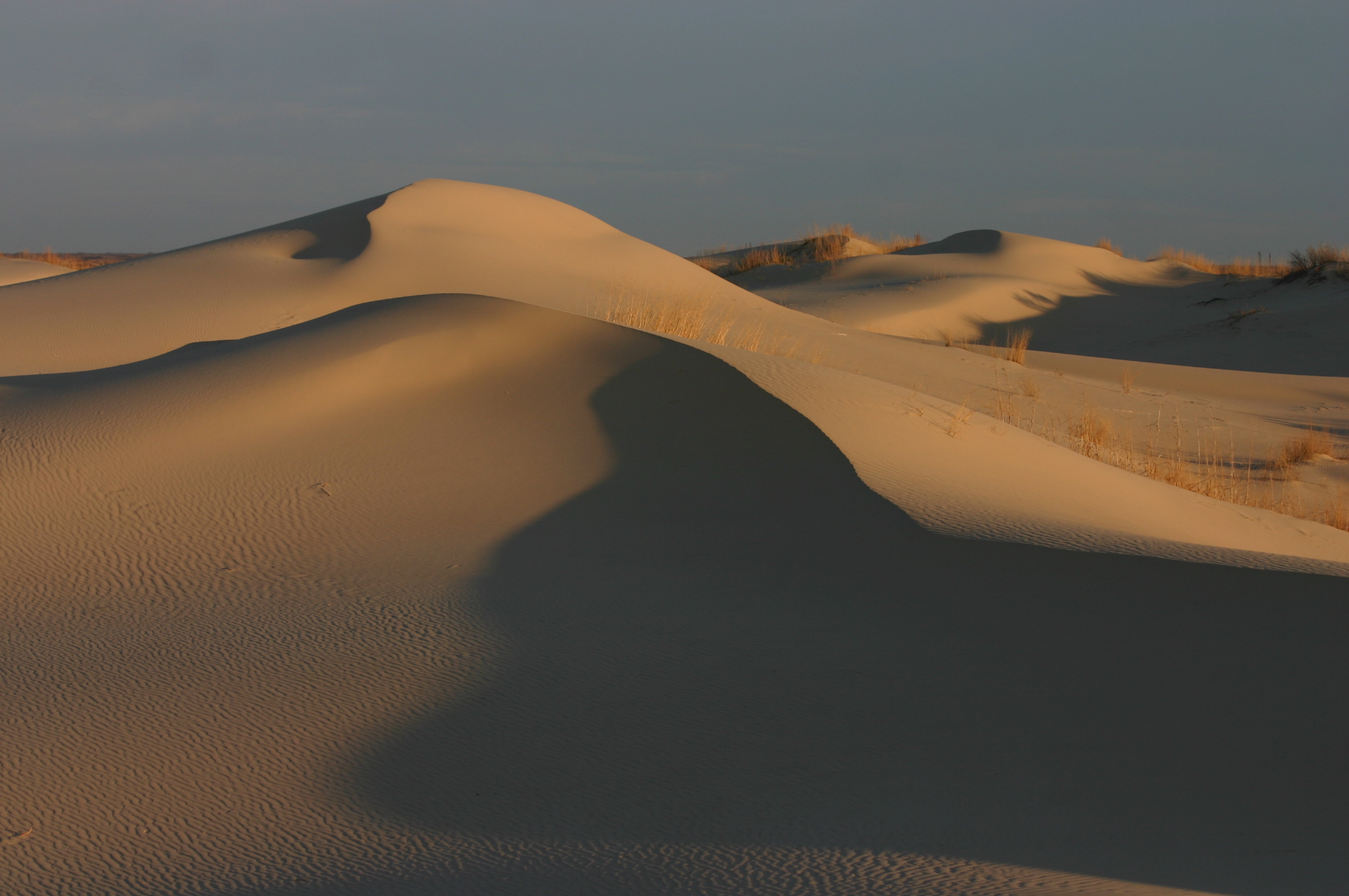 Sand dunes at sunrise. Taken at Monahans Sandhills State Park, Monahans, Texas, USA.